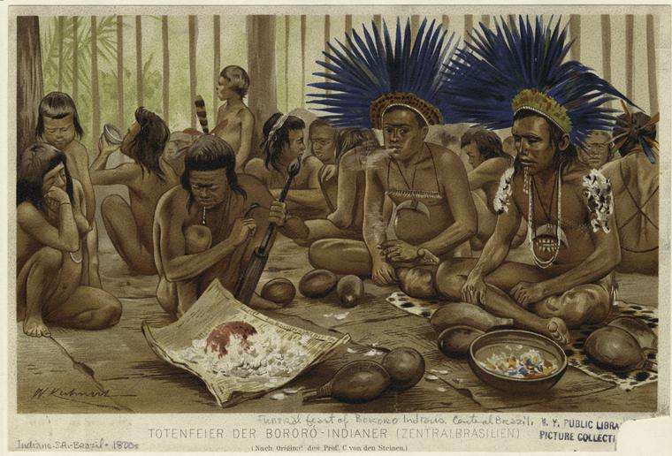 Funeral feast of Bororo Indians, Central Brazil.